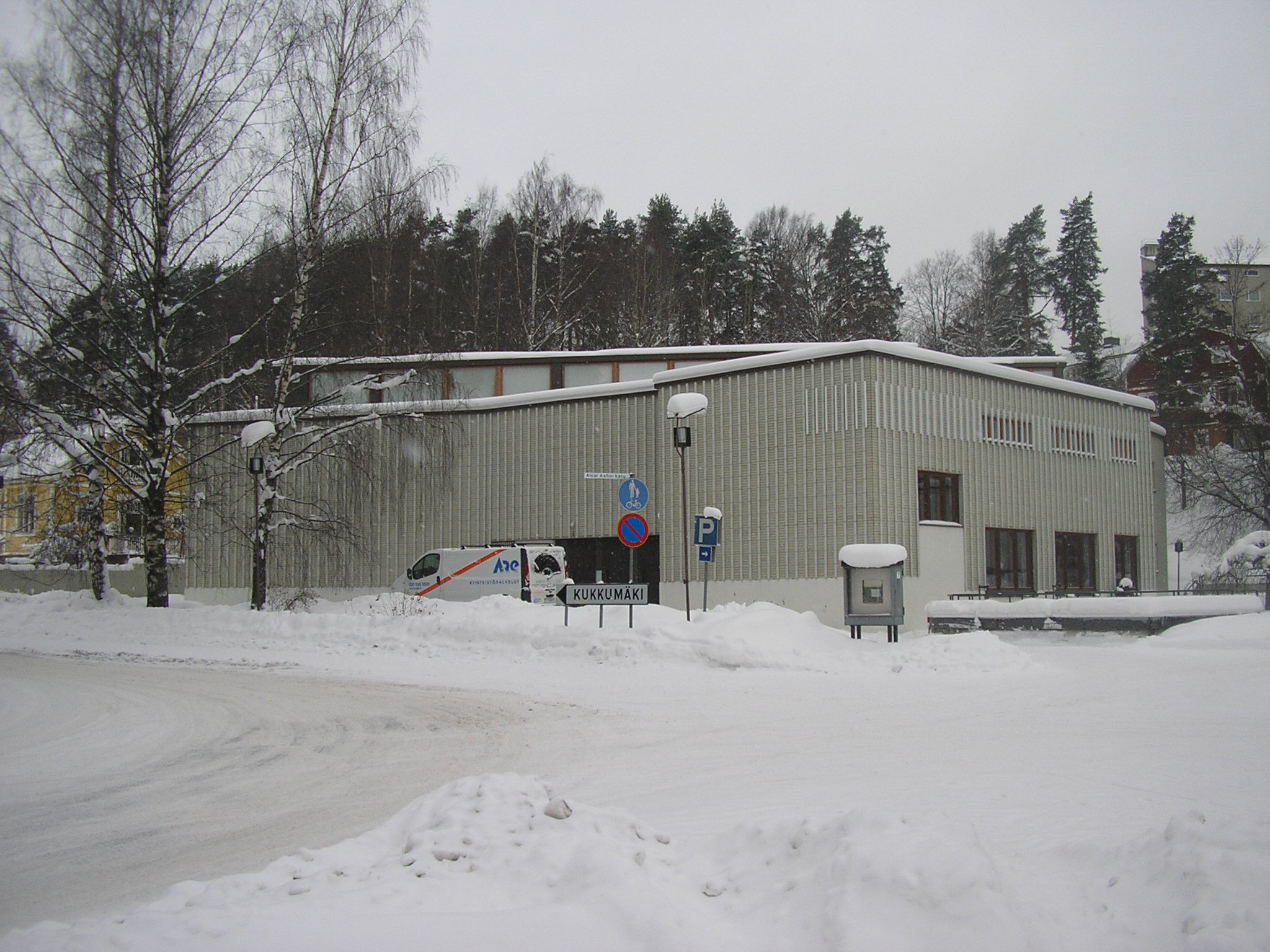 Alvar Aalto Museum in Jyväskylä, Finland